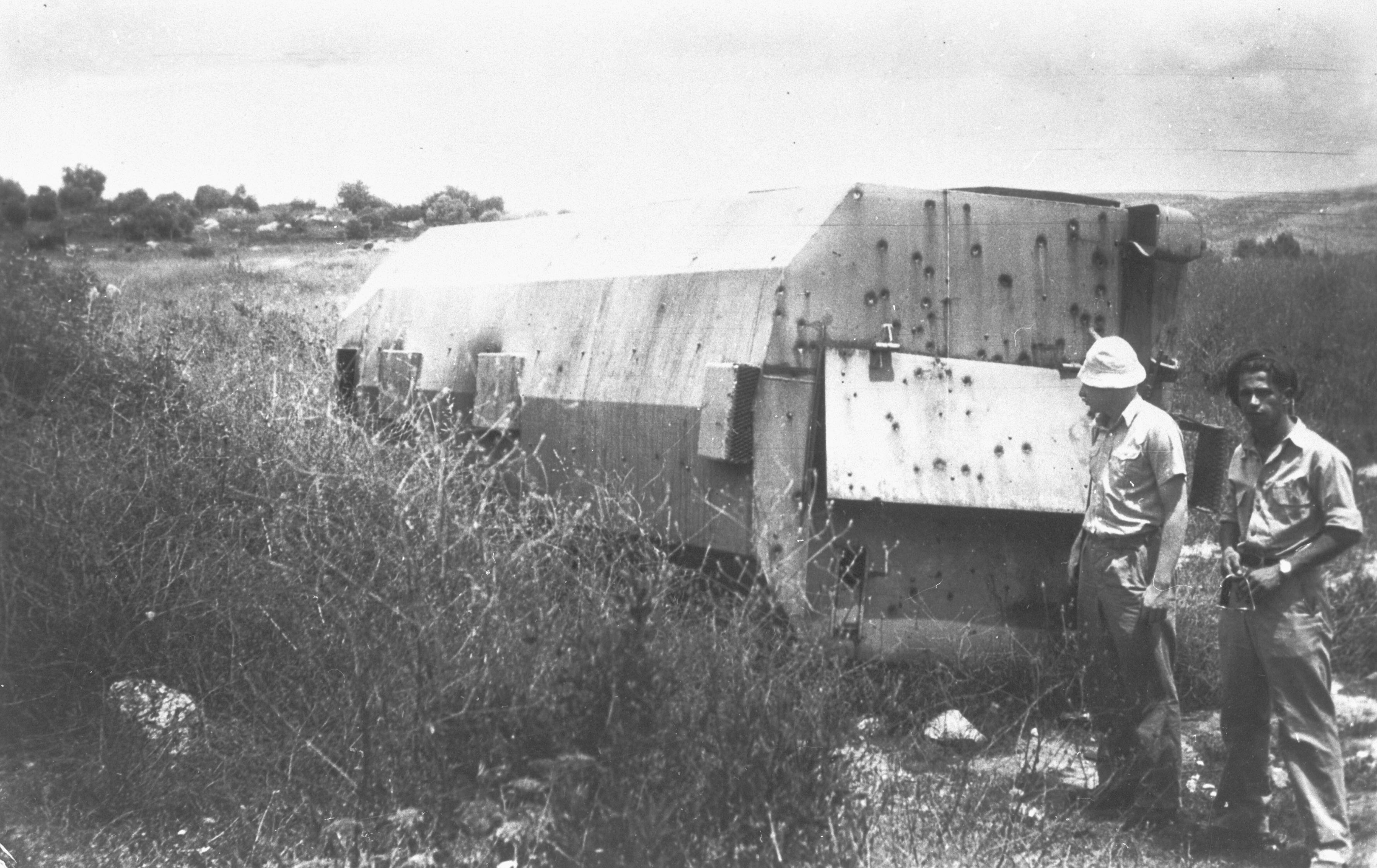 Yechiam Convoy armored vehicle upside down. The person on the right of the picture is Baruch Sukman (1927-2011), a Holocaust survivor who fought the Nazis as Partisan. He settled down in Haifa, raised three children and four grandchildren.